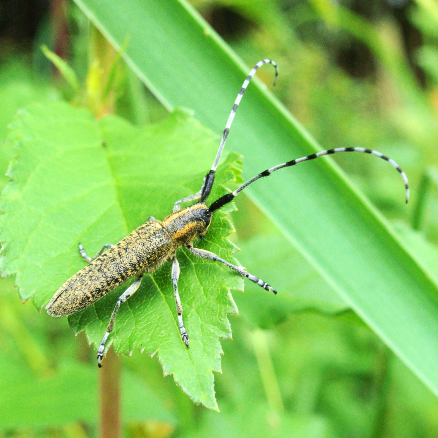 Name: Agapanthia villosoviridescens. Family: Cerambycidae. Location: Münster, NRW, Germany